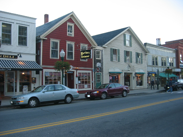 Main Street, Camden, Maine. Photo taken by Dudesleeper on October 3, 2004.